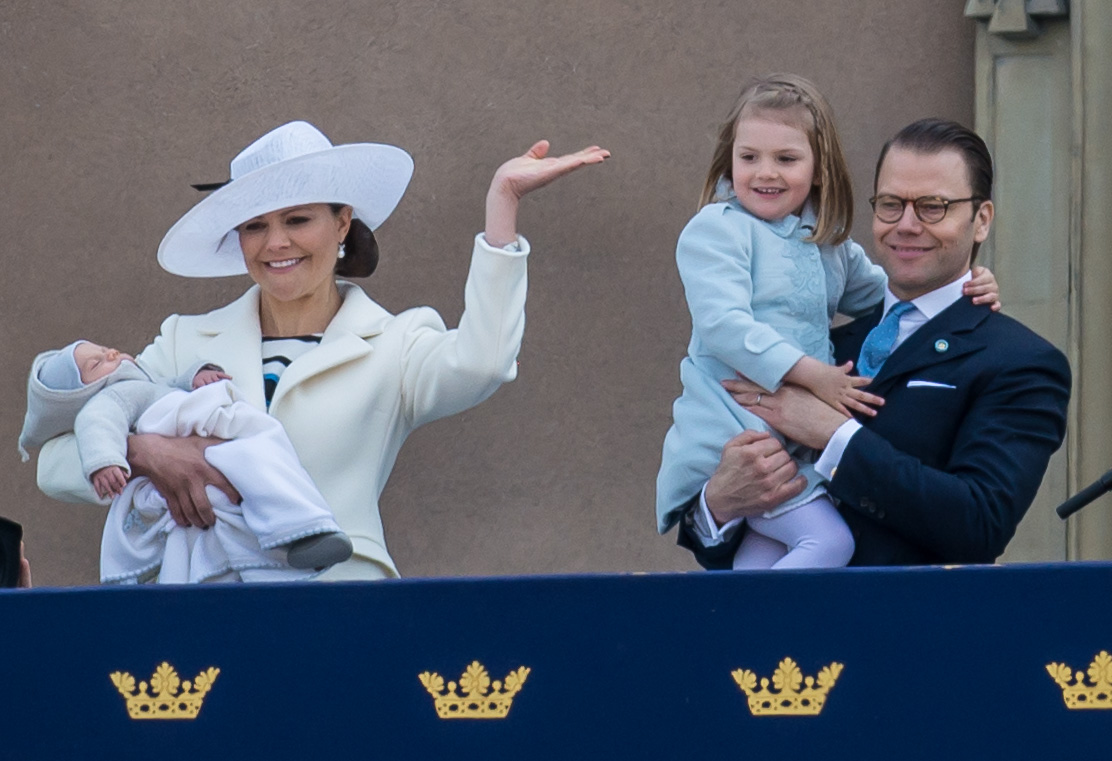 The celebration of Carl XVI Gustaf's 70th birthday at the Royal Palace in Stockholm April 30, 2016. Crown Princess Victoria with family.